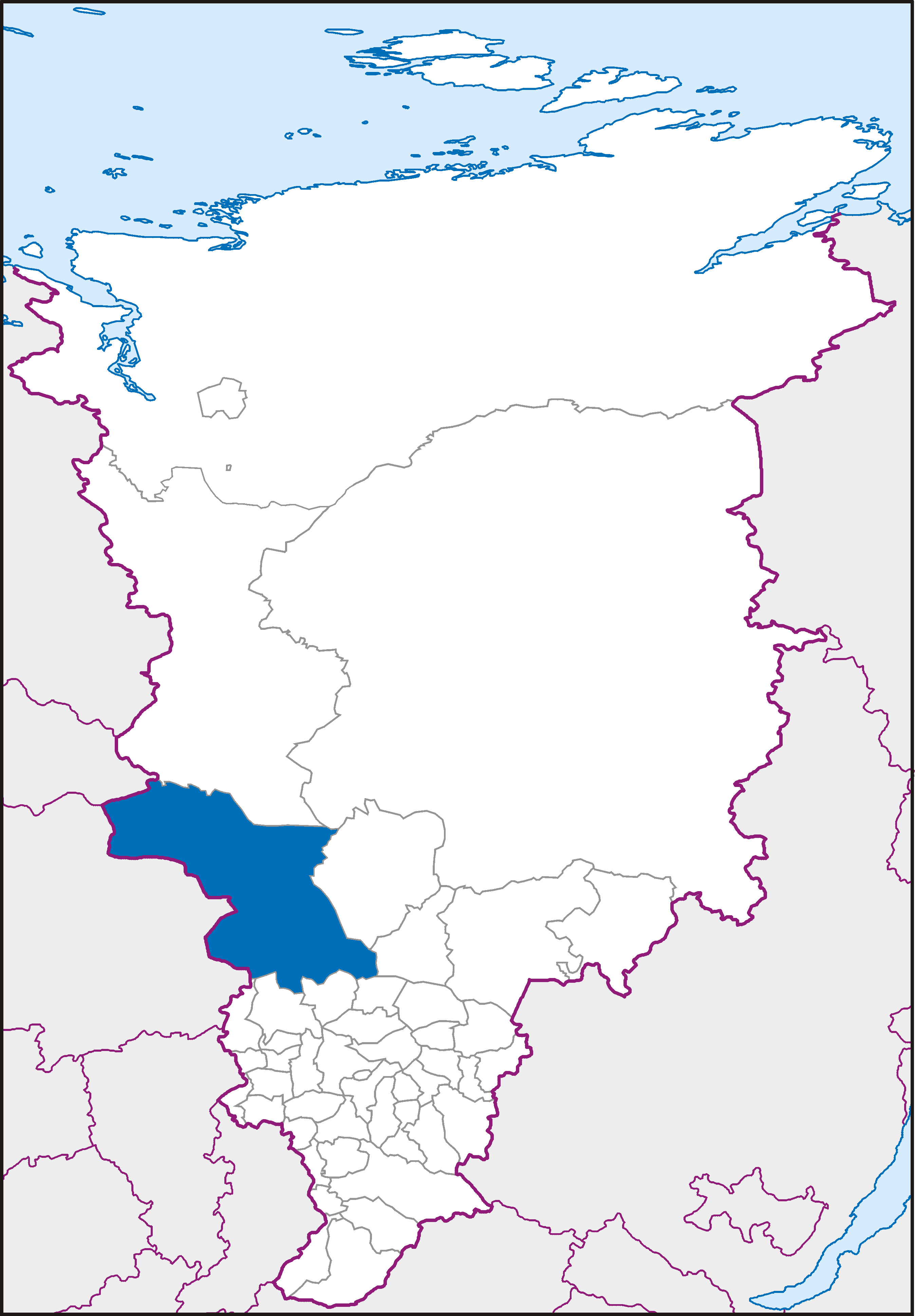 Map of Krasnoyarsk Krai in Albers Equal-Area Conic projection (Central Meridian = 95° E)